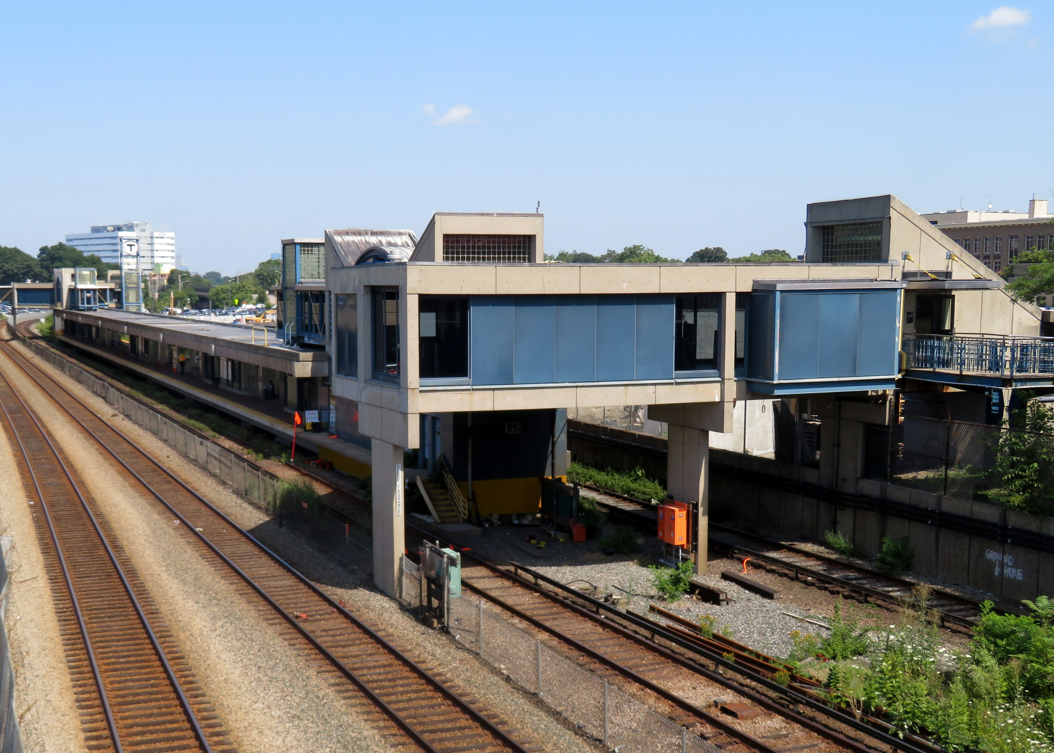 North Quincy station in July 2019